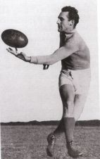 Photo of Wally Lock taken before 1949